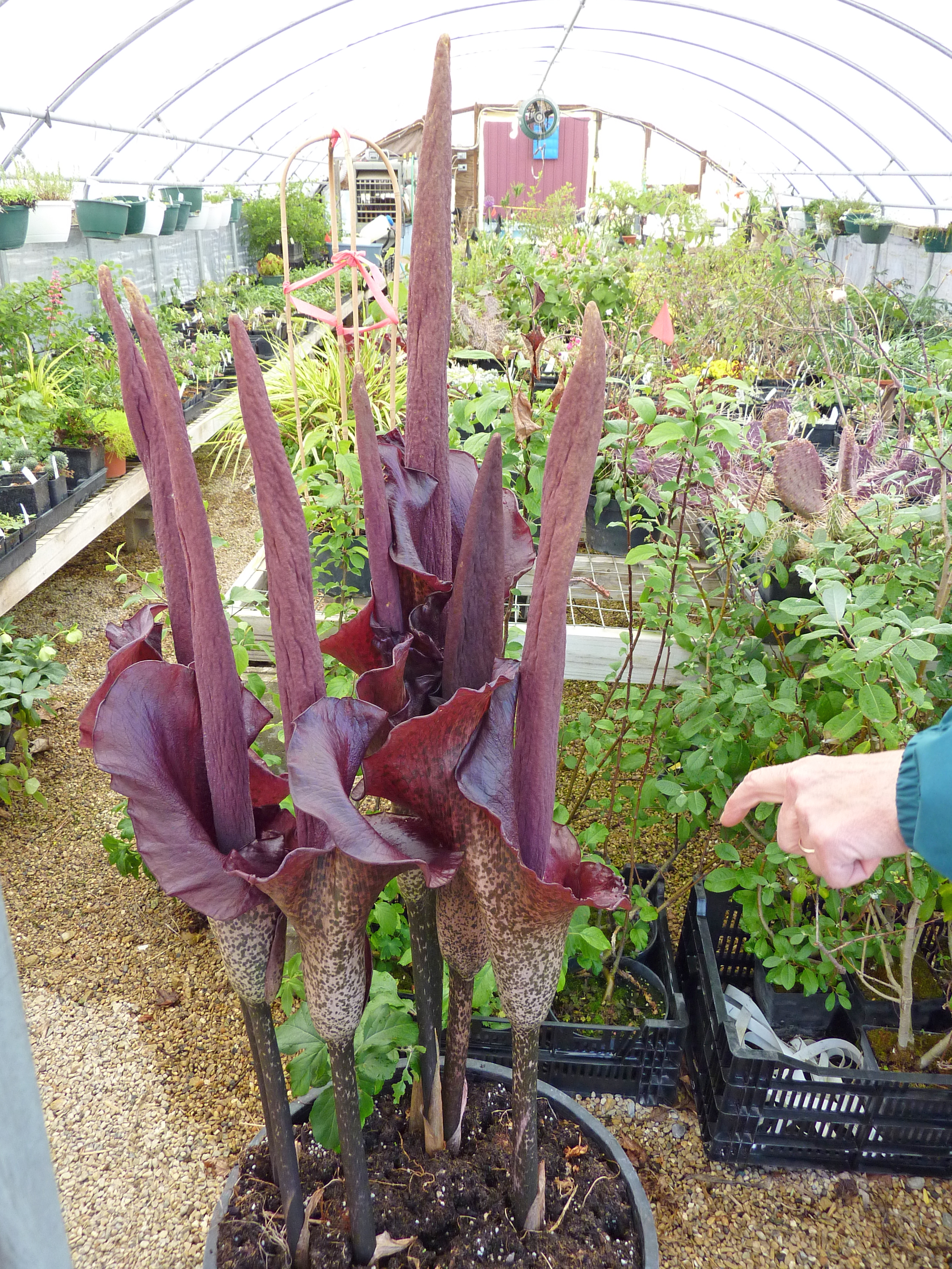 Amorphophallus konjac flowering at the Flower Factory in Stoughton, Wisconsin. Visible on the right is the hand of the proprietor, Nancy Nedveck.